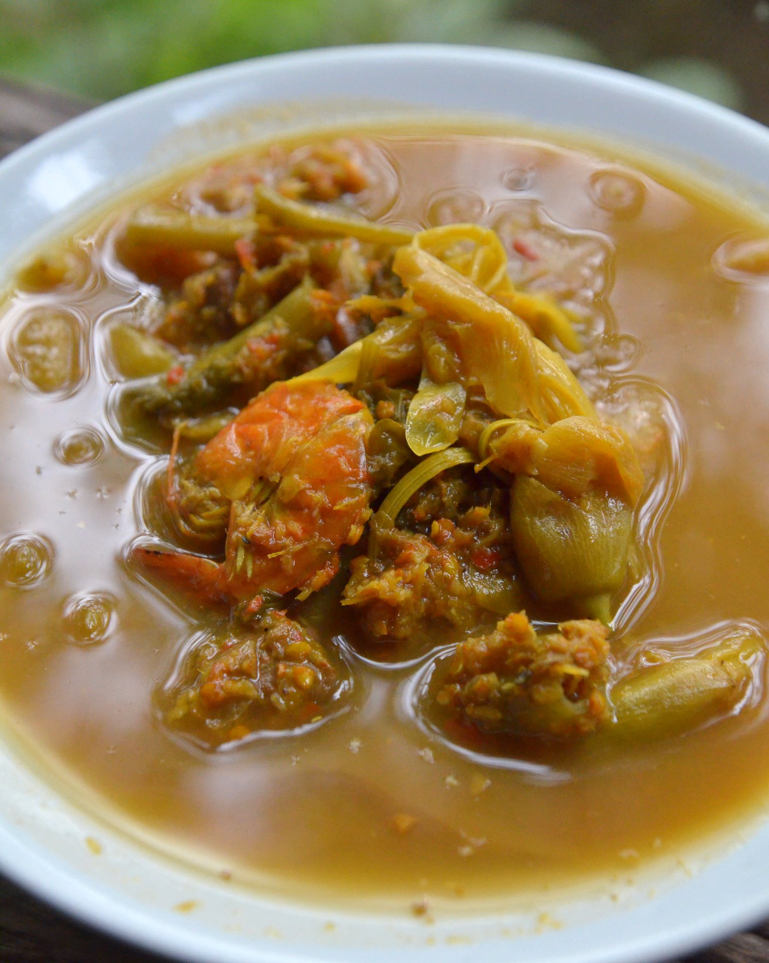 Kaeng som kung dok khae (Thai script: แกงส้มกุ้งดอกแข) is a sour Thai "curry" with prawns and dok khae (flowers of the Sesbania grandiflora).